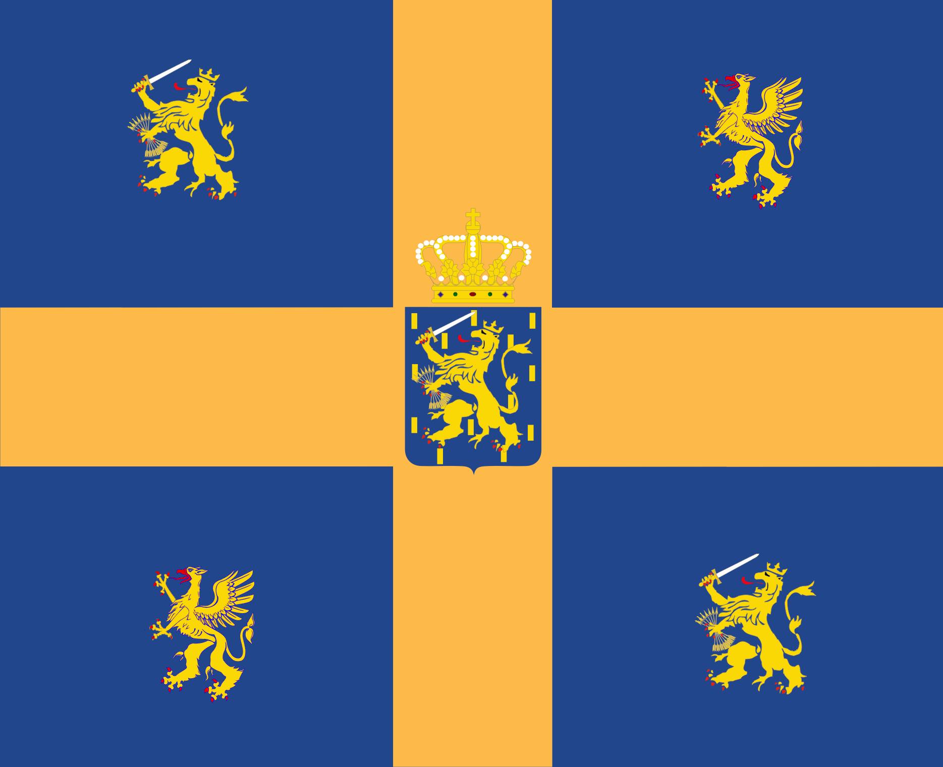 Standard of Hendrik of Mecklenburg-Schwerin as Royal consort of the Netherlands